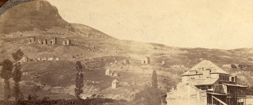 Digital copy of a photograph showing the Muslim cemetery in the hills near the Botanical Garden in Tbilisi. Photographer: Alexander Ivanitsky. Date: 1858. There are houses in the foreground of the photograph.